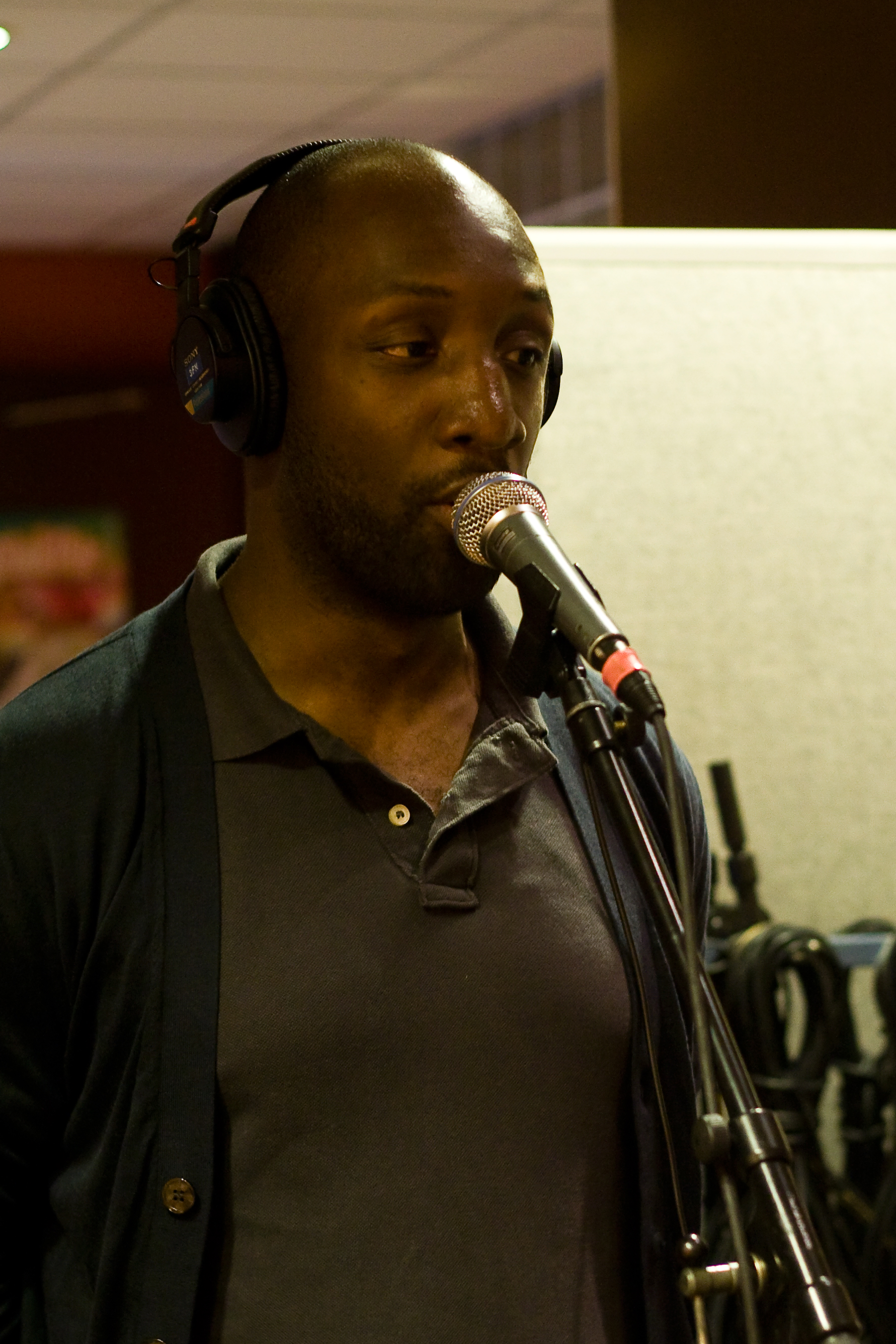 Murth Mossel, a Dutch comedian and rapper. Made during a performance of Flinke Namen at the 3FM radio show MetMichiel.